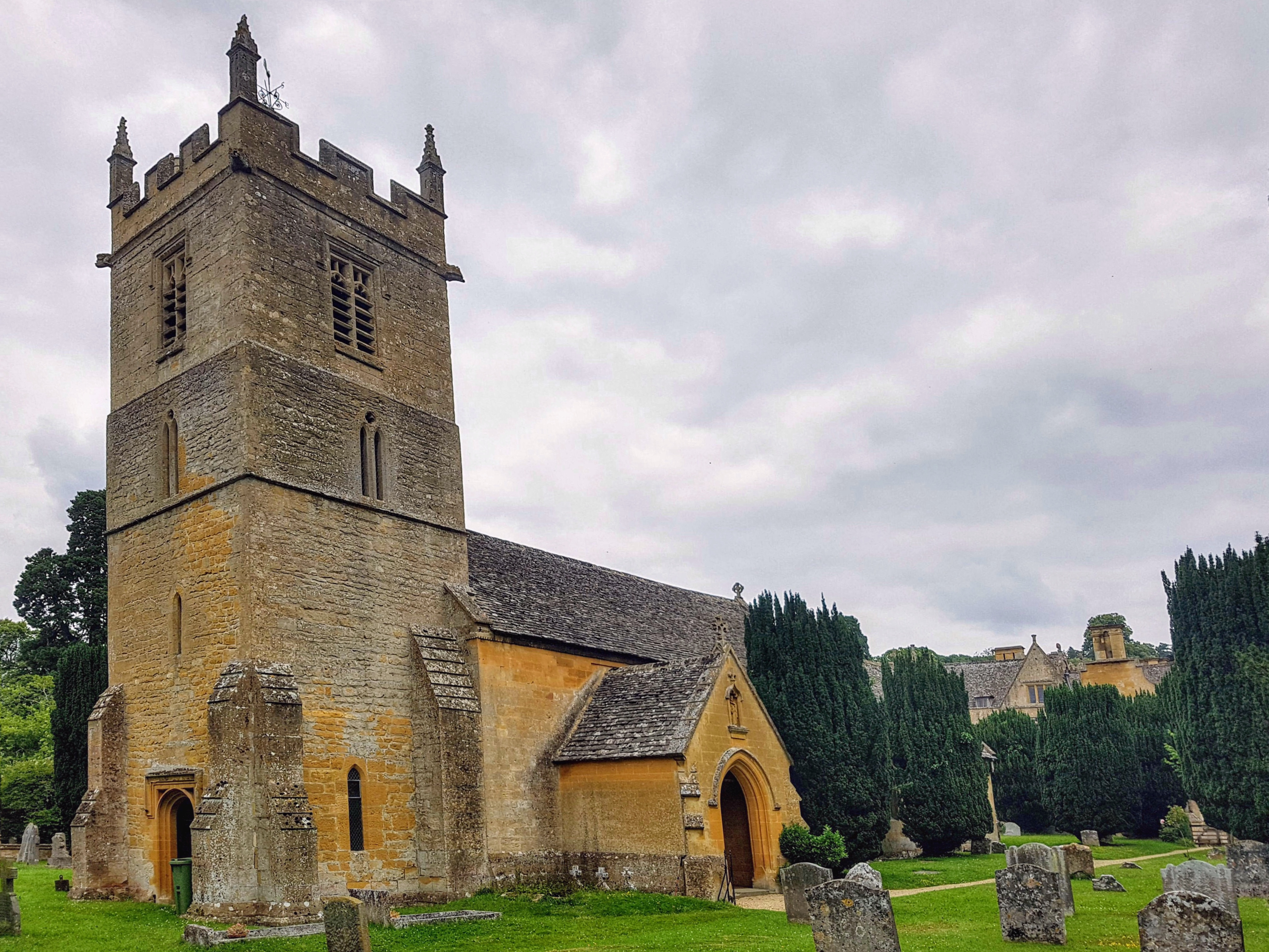 St Peter’s Church, Stanway, Gloucestershire